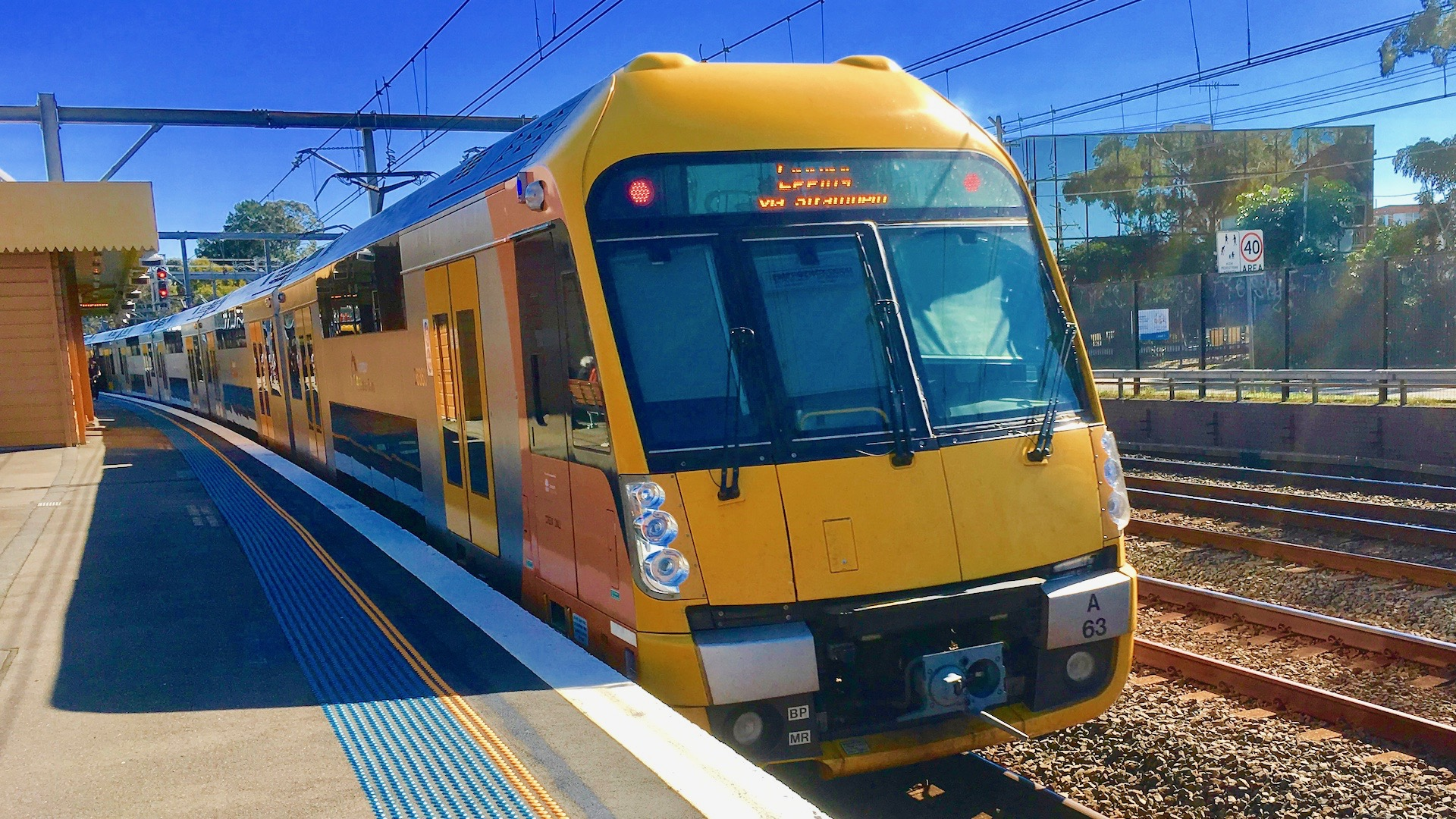 A63 speeds past Summer Hill's platform three.